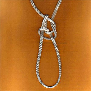 Created and uploaded on July 14, 2002 by User:Satsun.